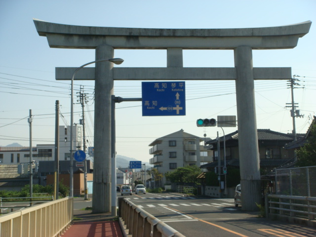 Torii at the Haraigawabashi Nishizume Intersection on the Kagawa Prefectural Road 282 in Yoshinoshimo, Manno Town